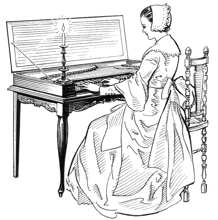 line art drawing of a clavichord.